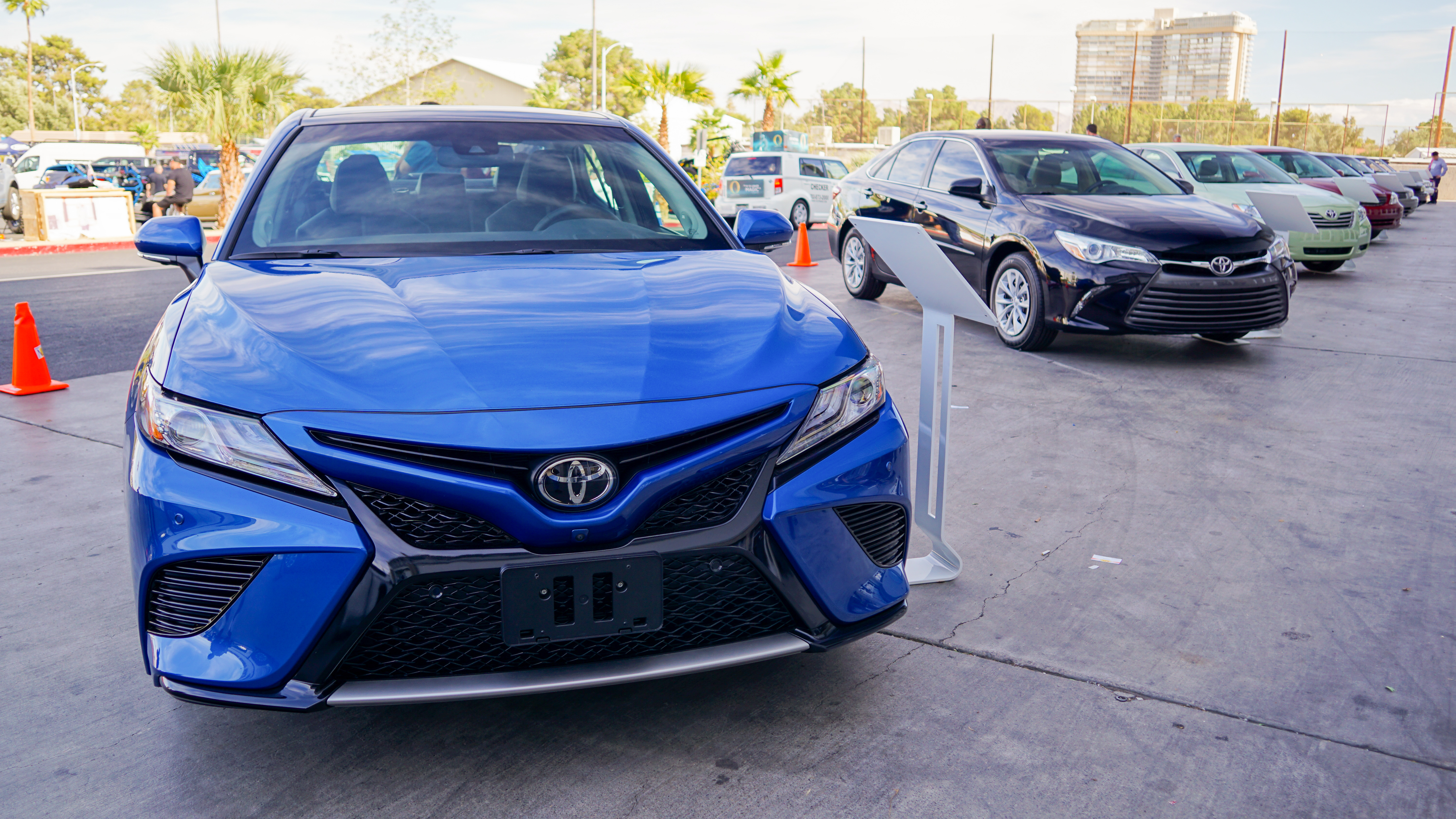 8 generations of the Toyota Camry, at the SEMA Show 2017.